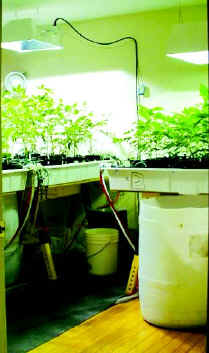 indoor grow from